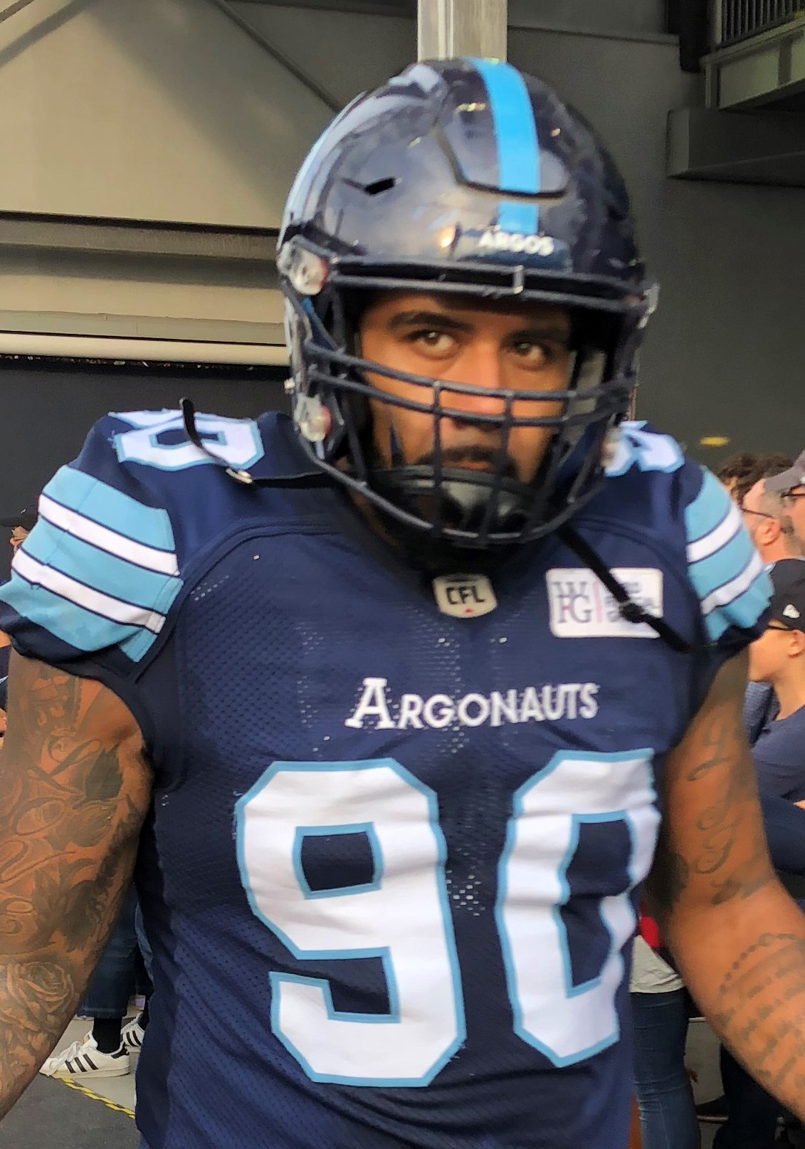 Cleyon Laing, Defensive Lineman for the Toronto Argonauts.